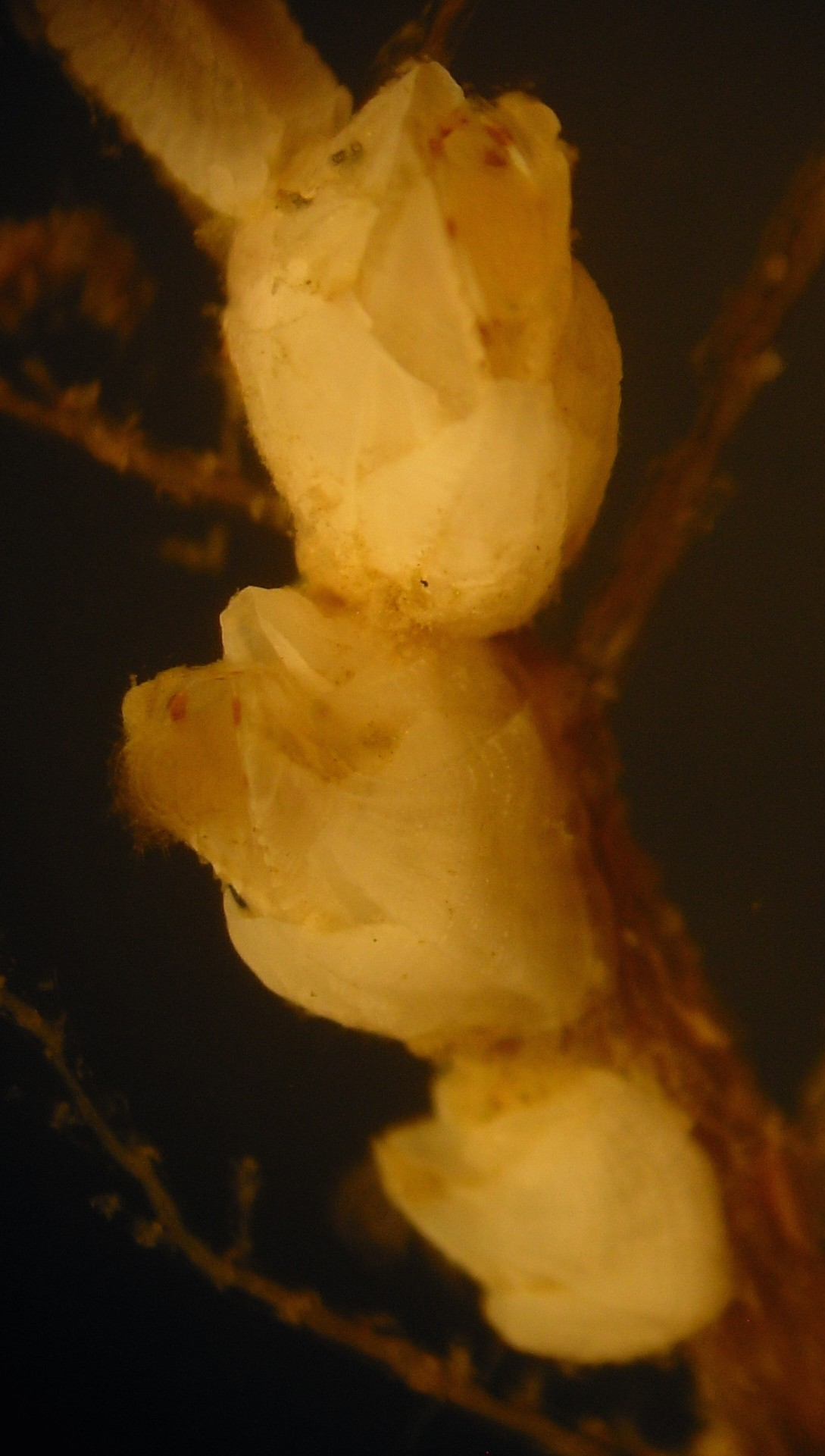 Solidobalanus fallax fixed to an hydroid hydrocaule.